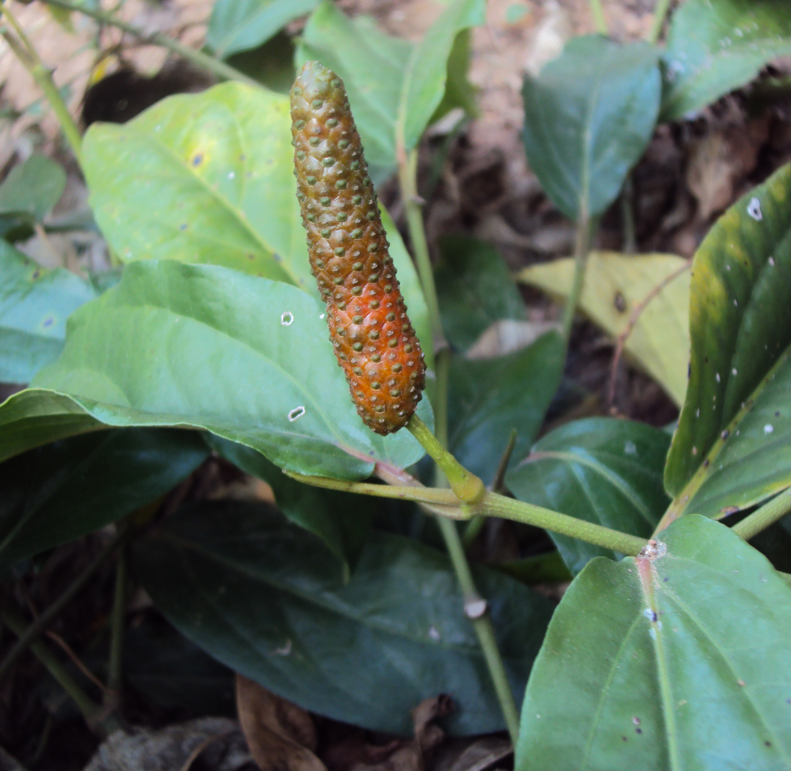 Piper chaba Hunter - ആനത്തിപ്പലി